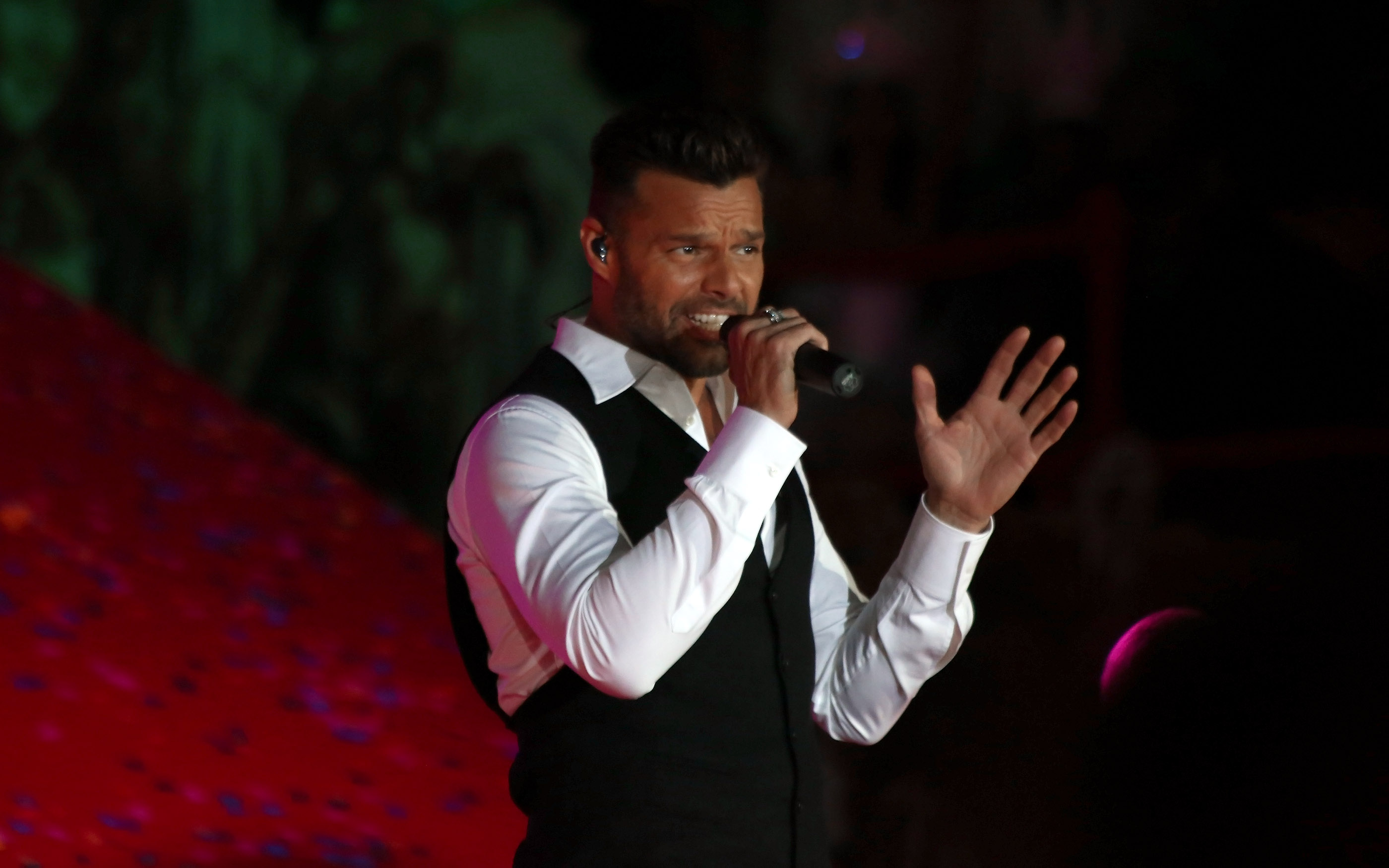 Ricky Martin performing at the opening show of Life Ball 2014 at the city hall of Vienna, Vienna, Austria.